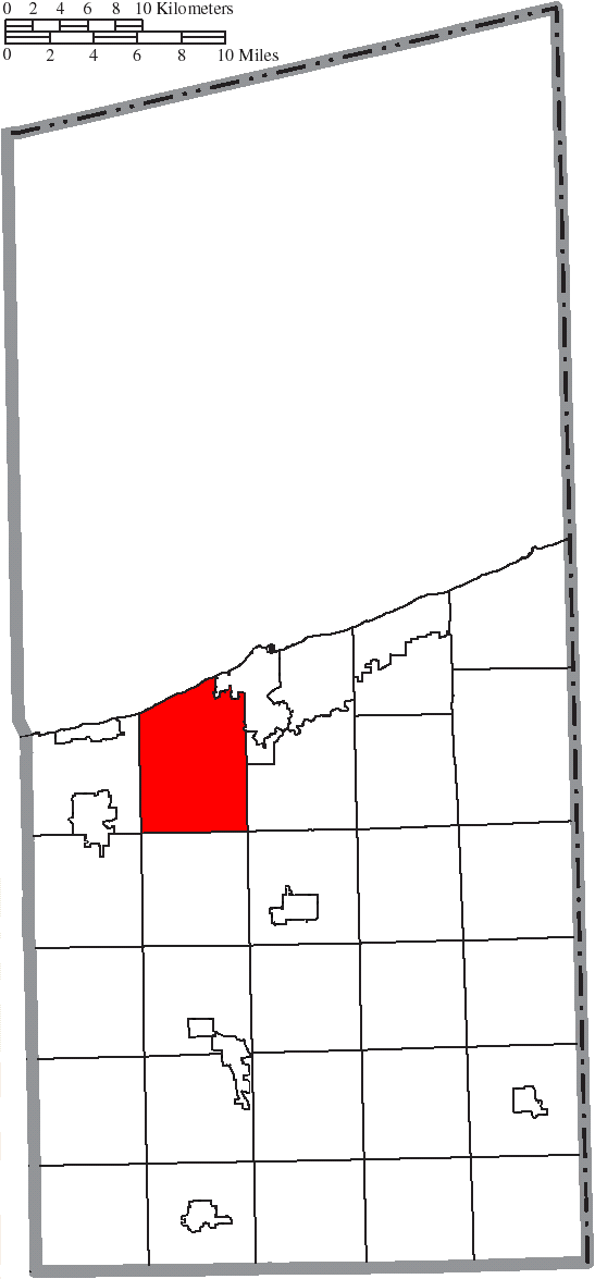 Map of the municipal and township boundaries of Ashtabula County, Ohio, United States, as of the 2000 census, with the location of Saybrook Township highlighted. Township borders are shown only in unincorporated areas in order to differentiate incorporated and unincorporated areas more clearly.